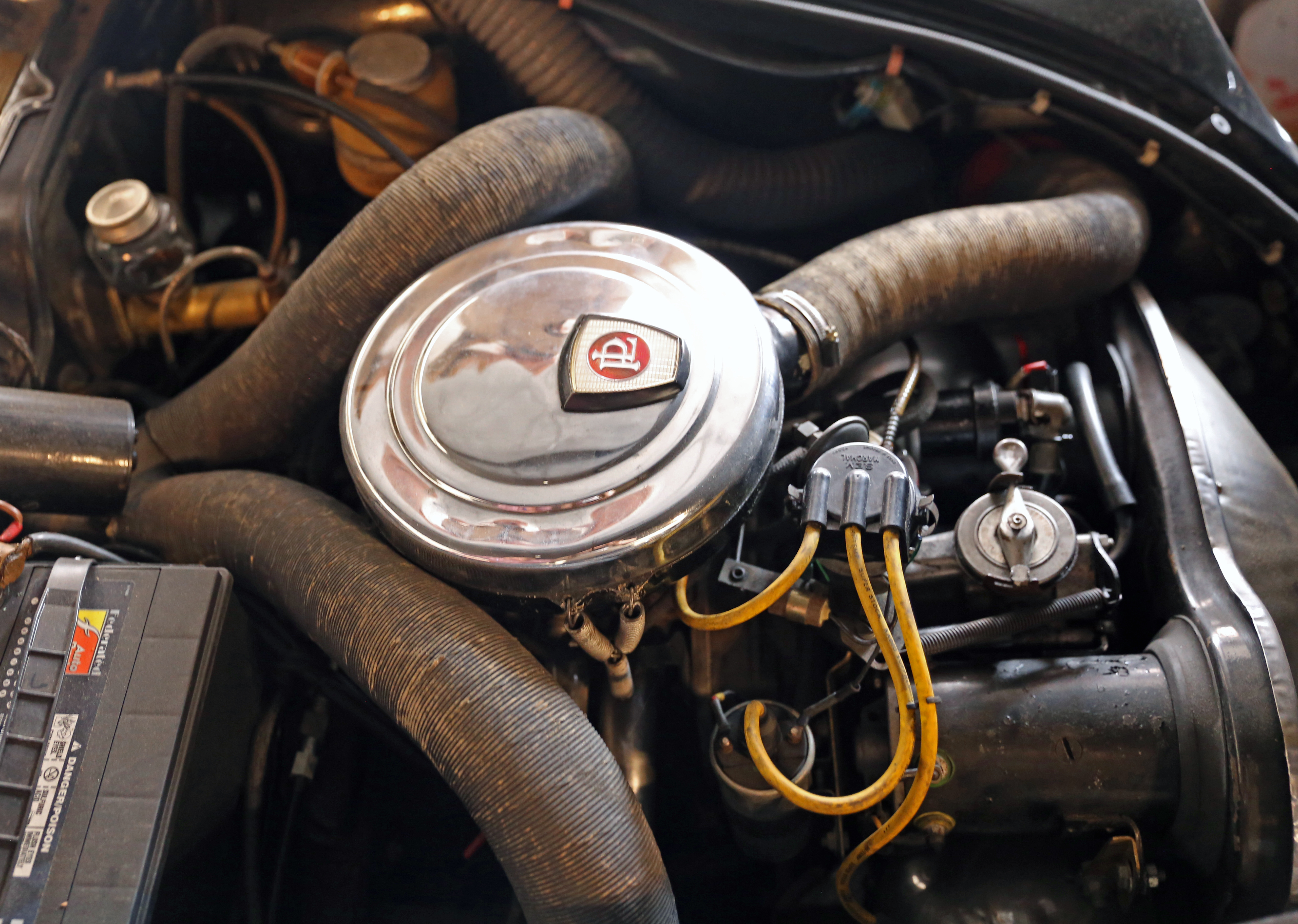 The engine room of an 848cc, 50cv 1966 Panhard 24BT in the Bandy collection. Built after the Citroën takeover, has a Citroën chassis plate (4044-000159).